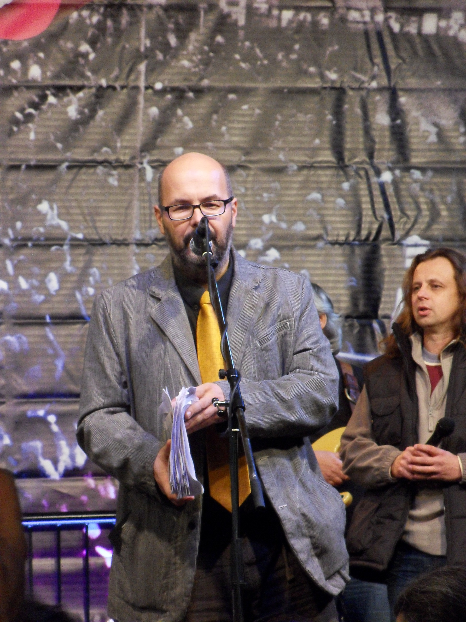 Vladimír Morávek, czech director